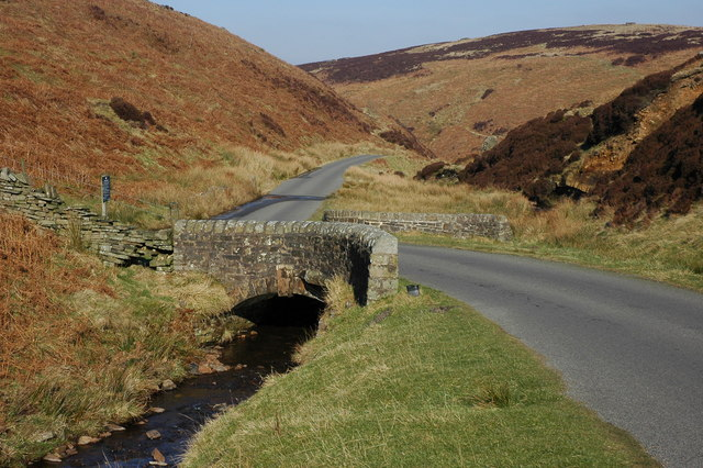 The Derbyshire Bridge, Goyt Valley The Derbyshire Bridge crosses the River Goyt near the top of the Goyt Valley.